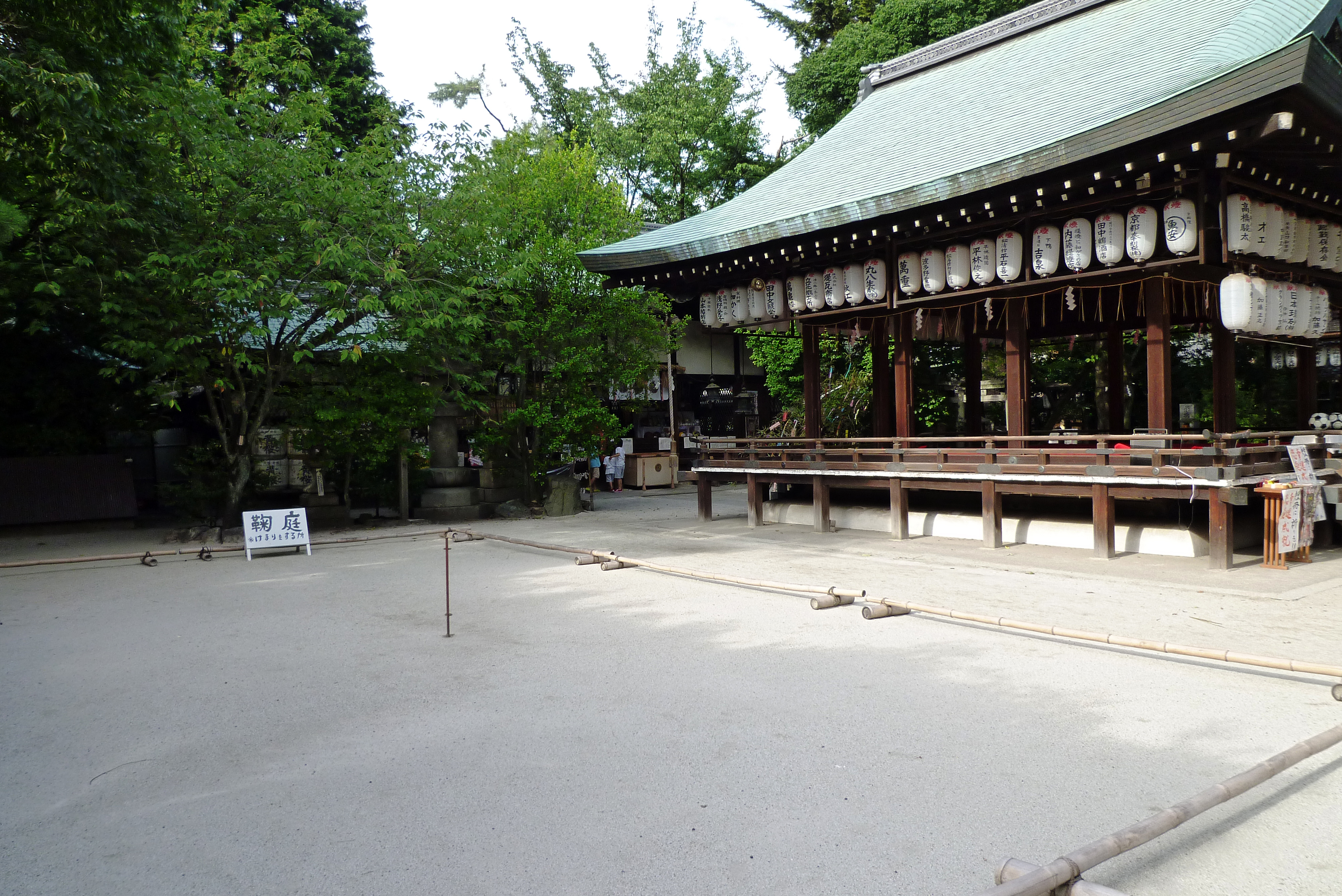 Shiramine-jingū(白峯神宮), Kyoto, Kyoto prefecture, Japan